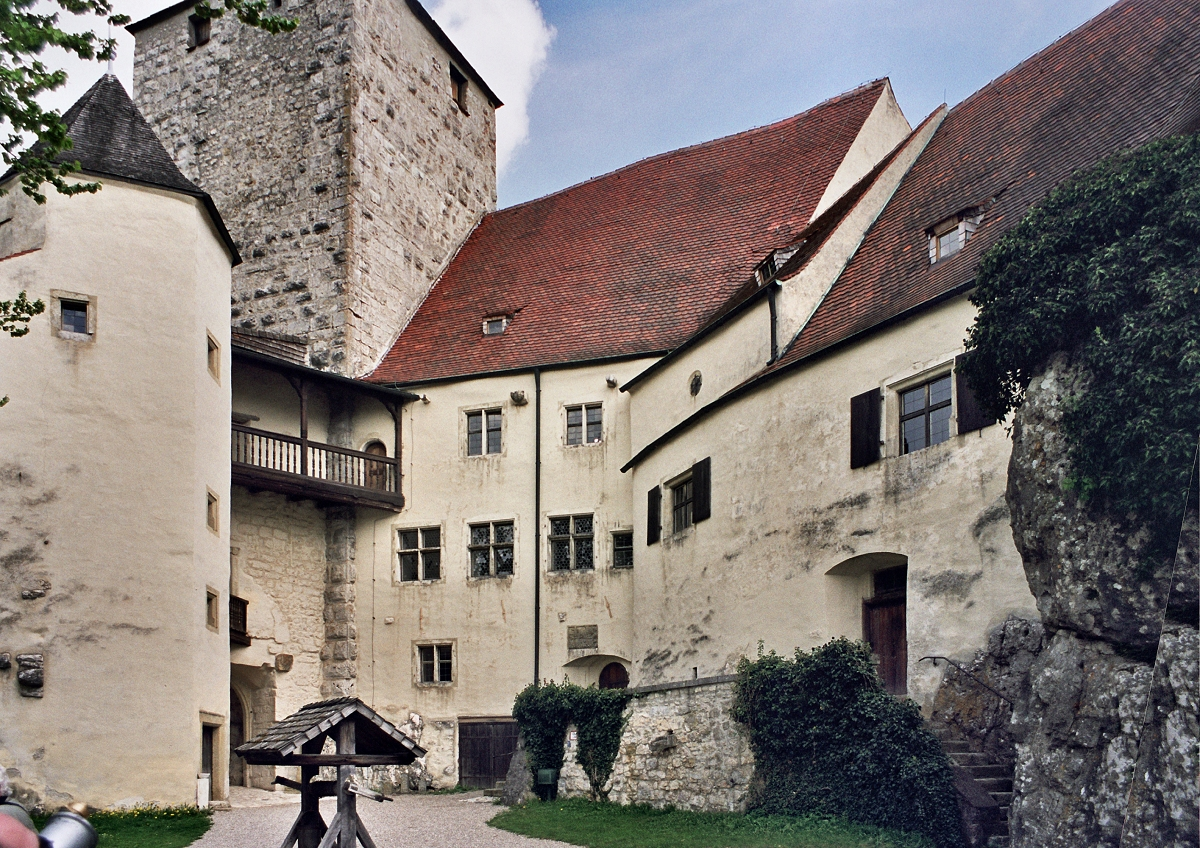 Prunn Castle, inner courtyard